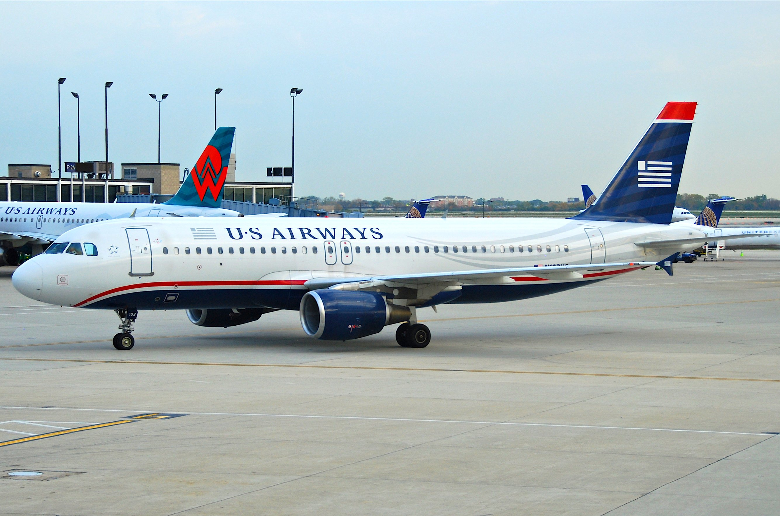 US Airways Airbus A320-214; N103US@ORD;12.10.2011/624cc